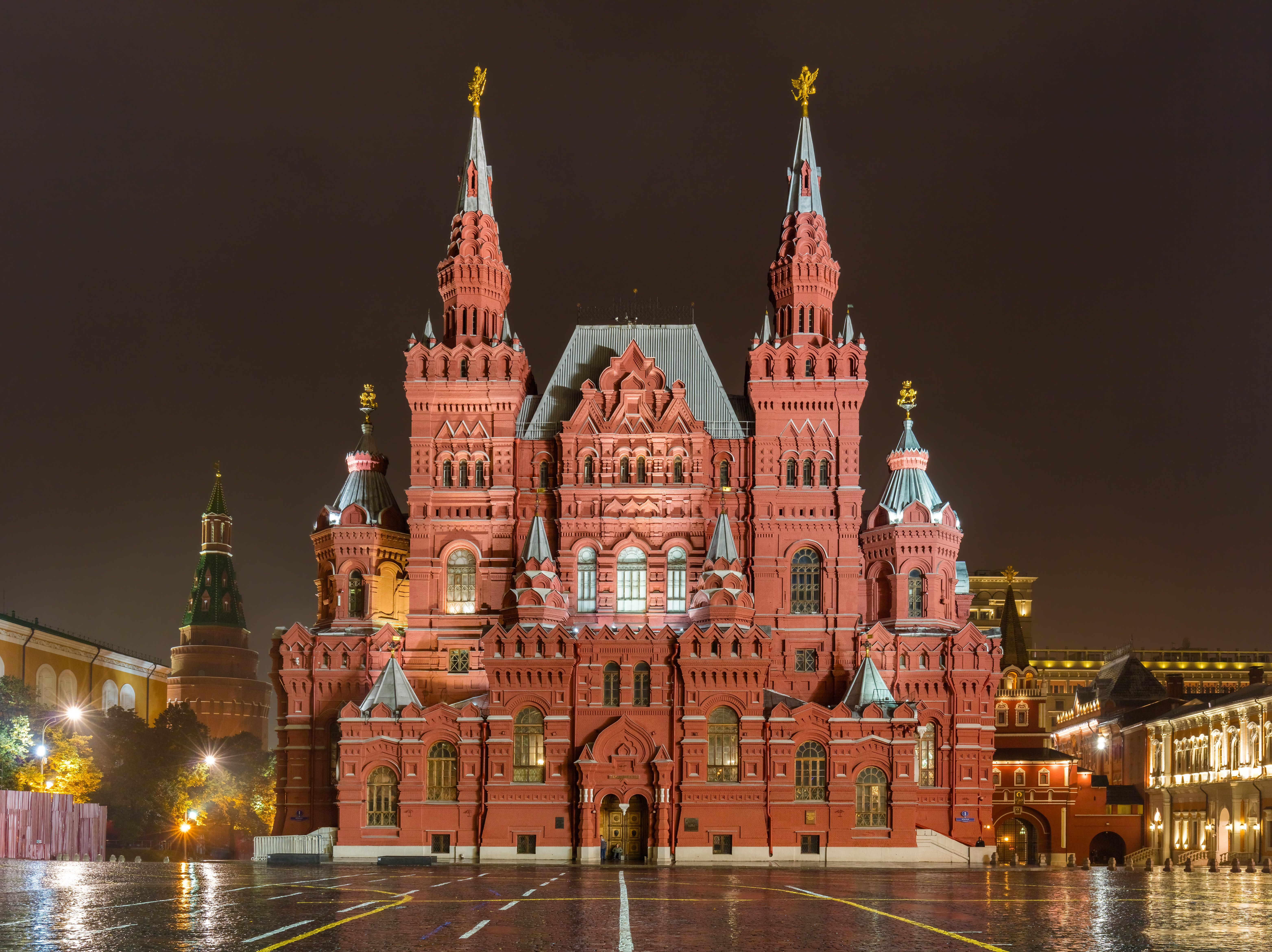 Building of the State Historical Museum view from the Red Square, Moscow, Russia. The host of the Russian history museum was built based on Sherwood's neo-Russian design between 1875 and 1881.